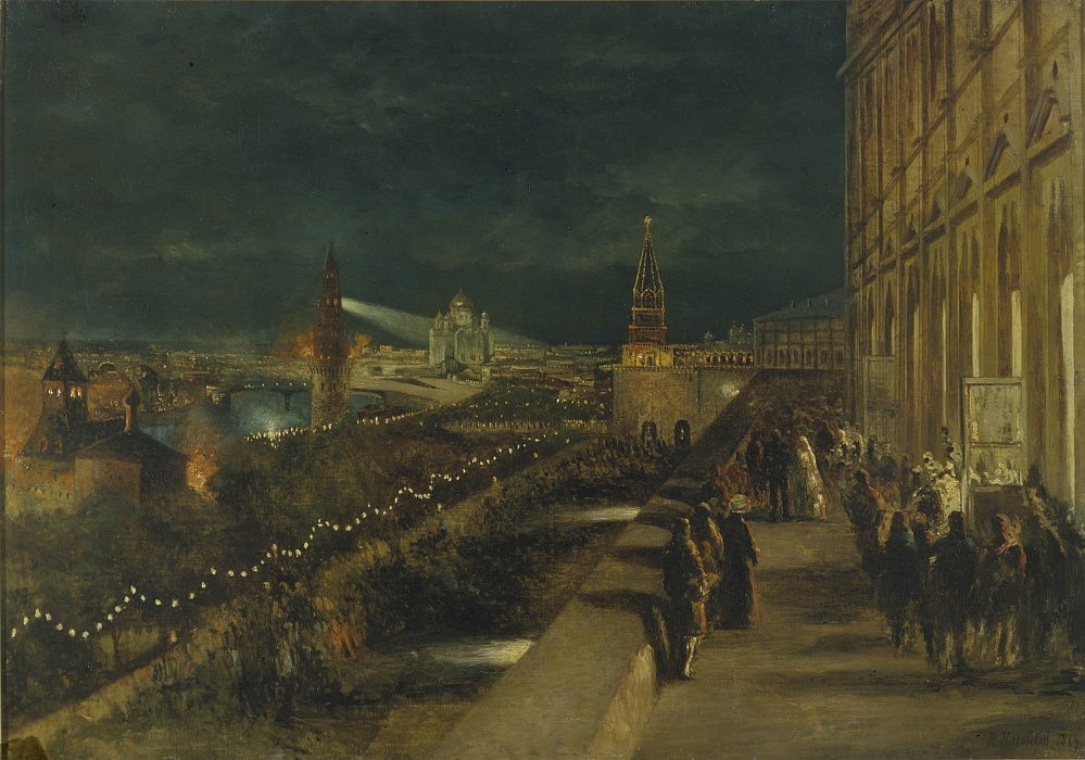 ArtistKonstantin MakovskyTitleIllumination of Moscow on the occasion of the coronation in 1883.Date1883MediumpaintingCurrent locationRussiaSource/Photographer (Reusing this file)Public domain